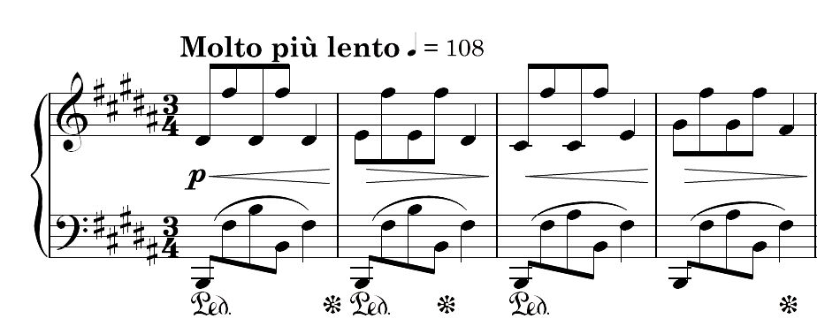 "Lulajże Jezuniu" from Scherzo in B minor, Op. 20 by Frederic Chopin